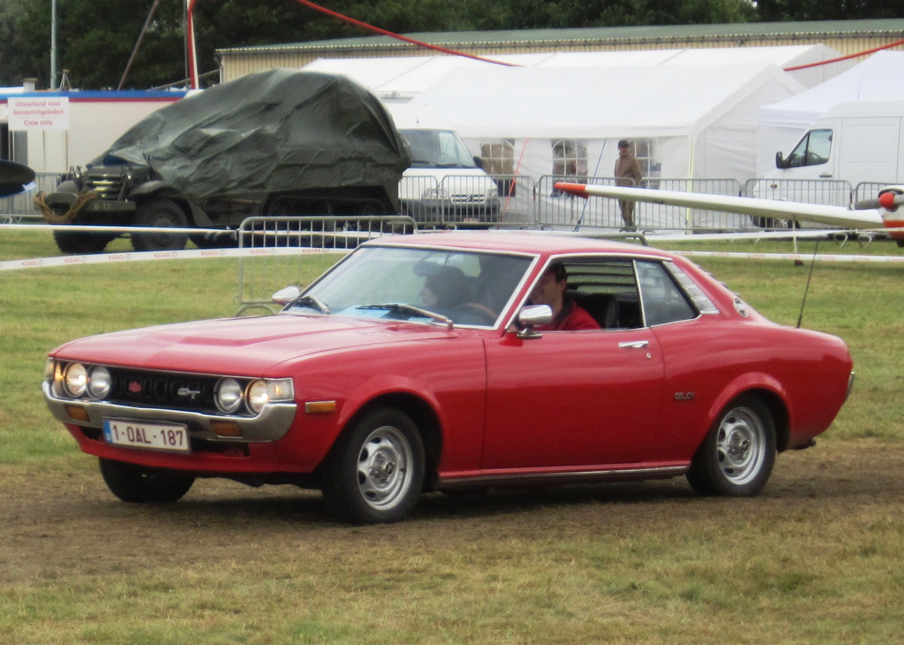 Toyota Celica GT (ca 1975) in Schaffen-Diest (2014)